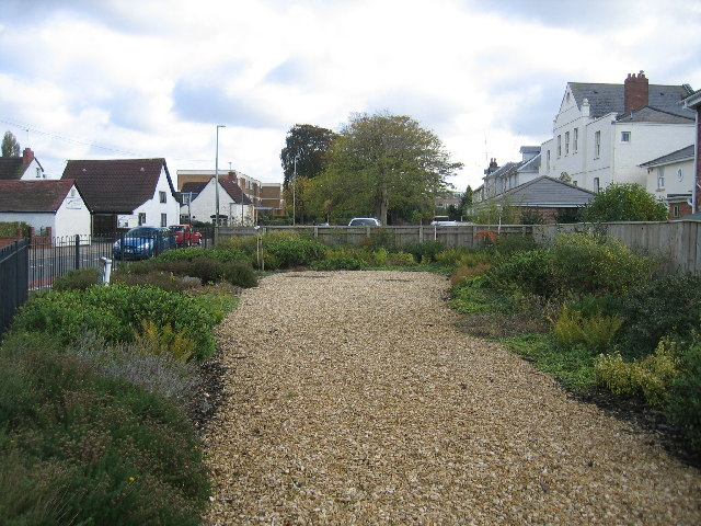 Hucclecote Millennium Garden. Located in the corner of Hucclecote Road and Porchester Road, with Hucclecote Court on the right.